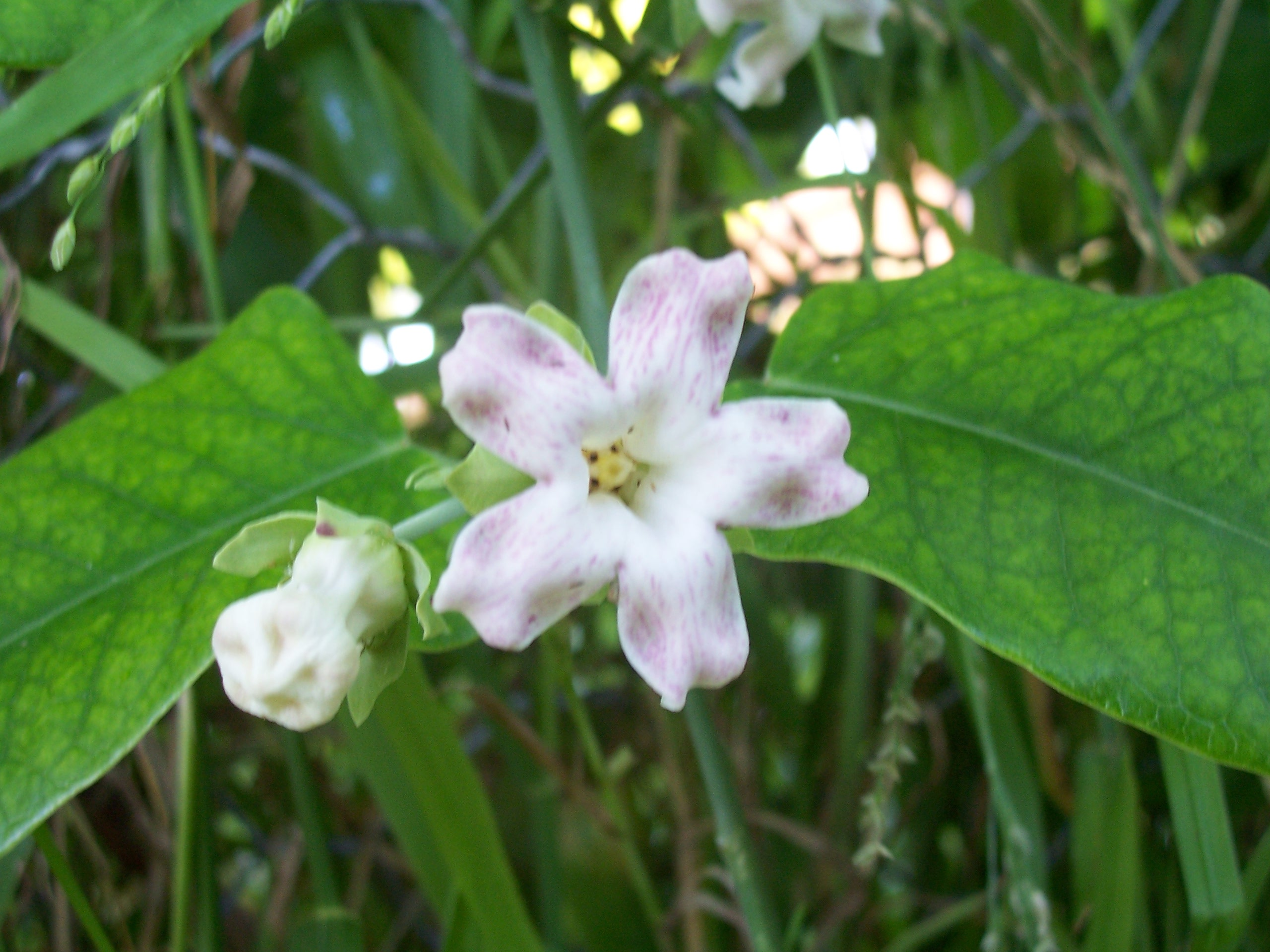 A closeup of a flower from the Araujia sericifera (syn. Araujia hortorum, Common moth-vine) growing on a chicken-wire fence. In the background, an unknown grass can be seen.